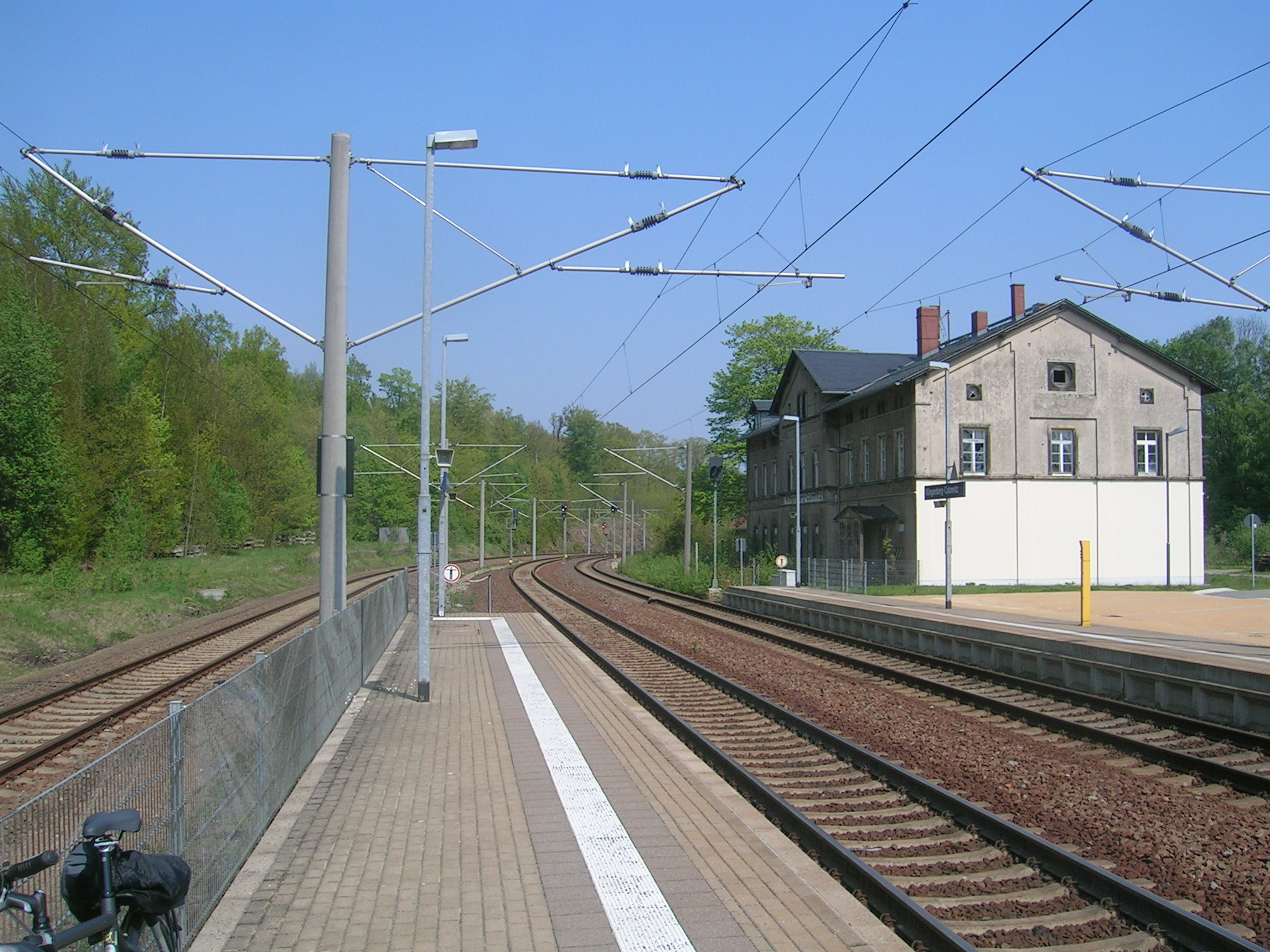 Klingenberg-Colmnitz railway station; view from platform 3 towards Dresden